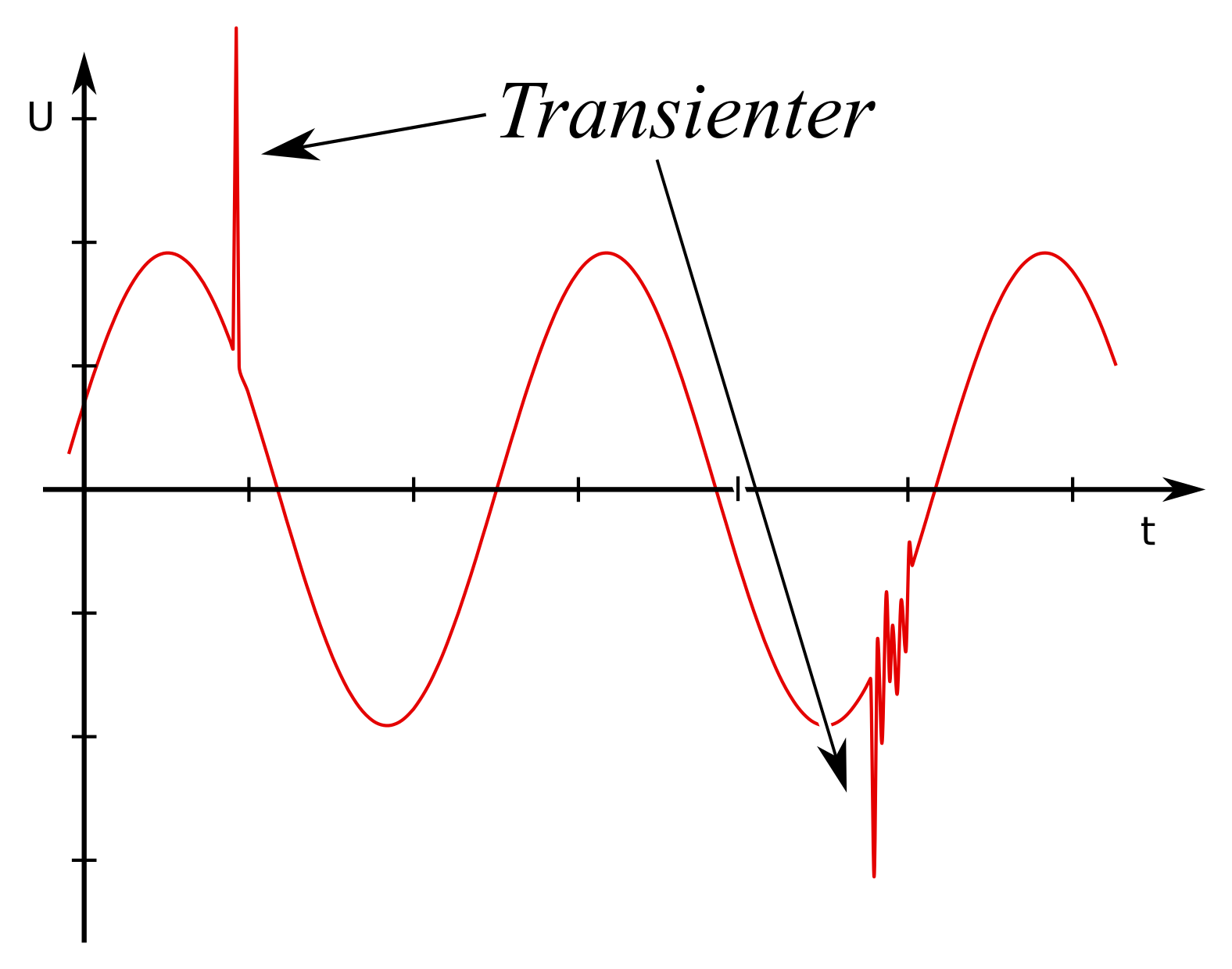 Transients in electric network